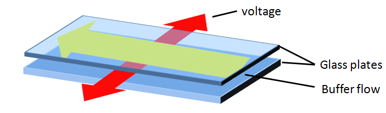 This scheme shows the principle of Free Flow Electrophoresis